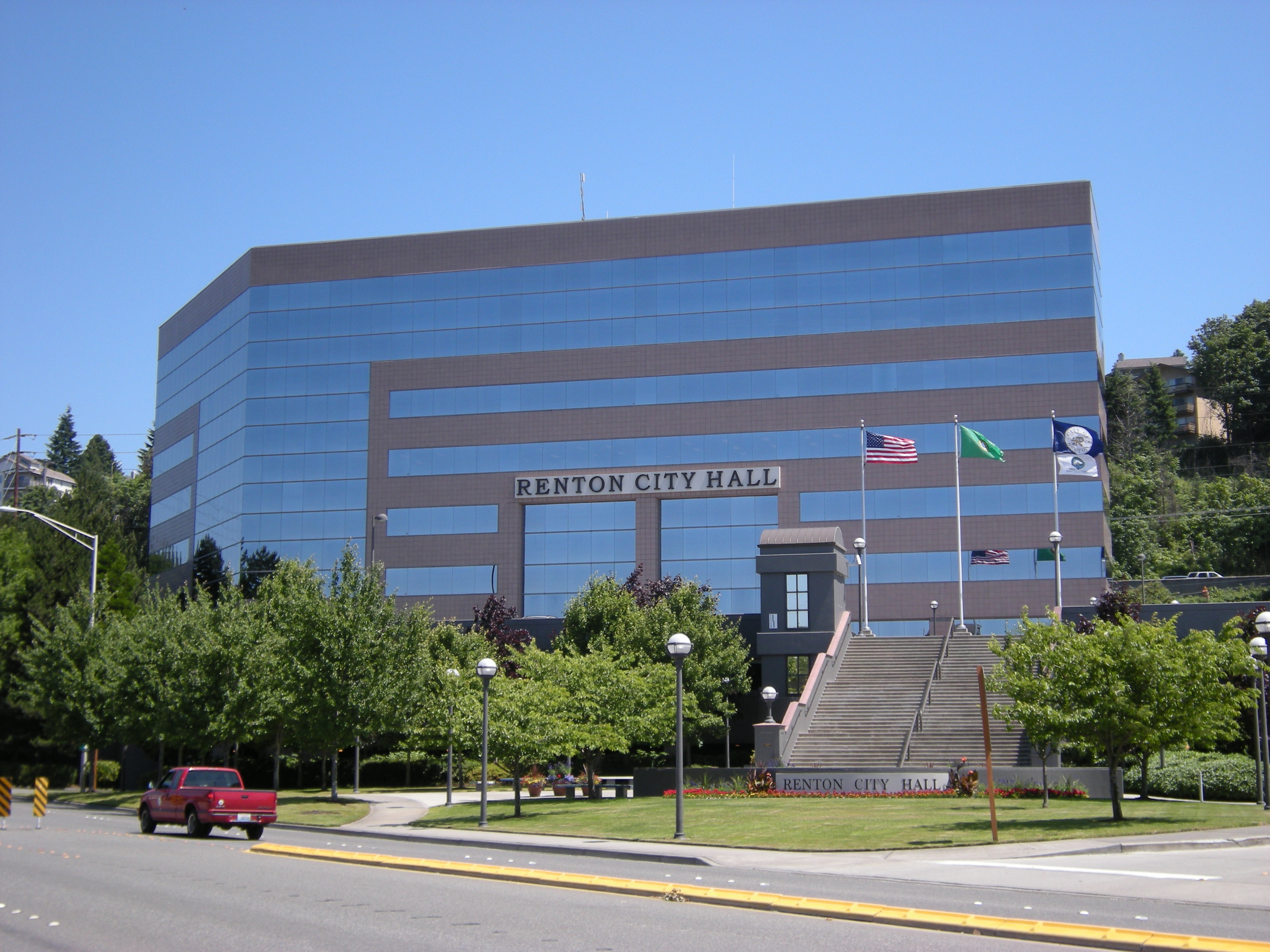 Renton, Washington city hall.